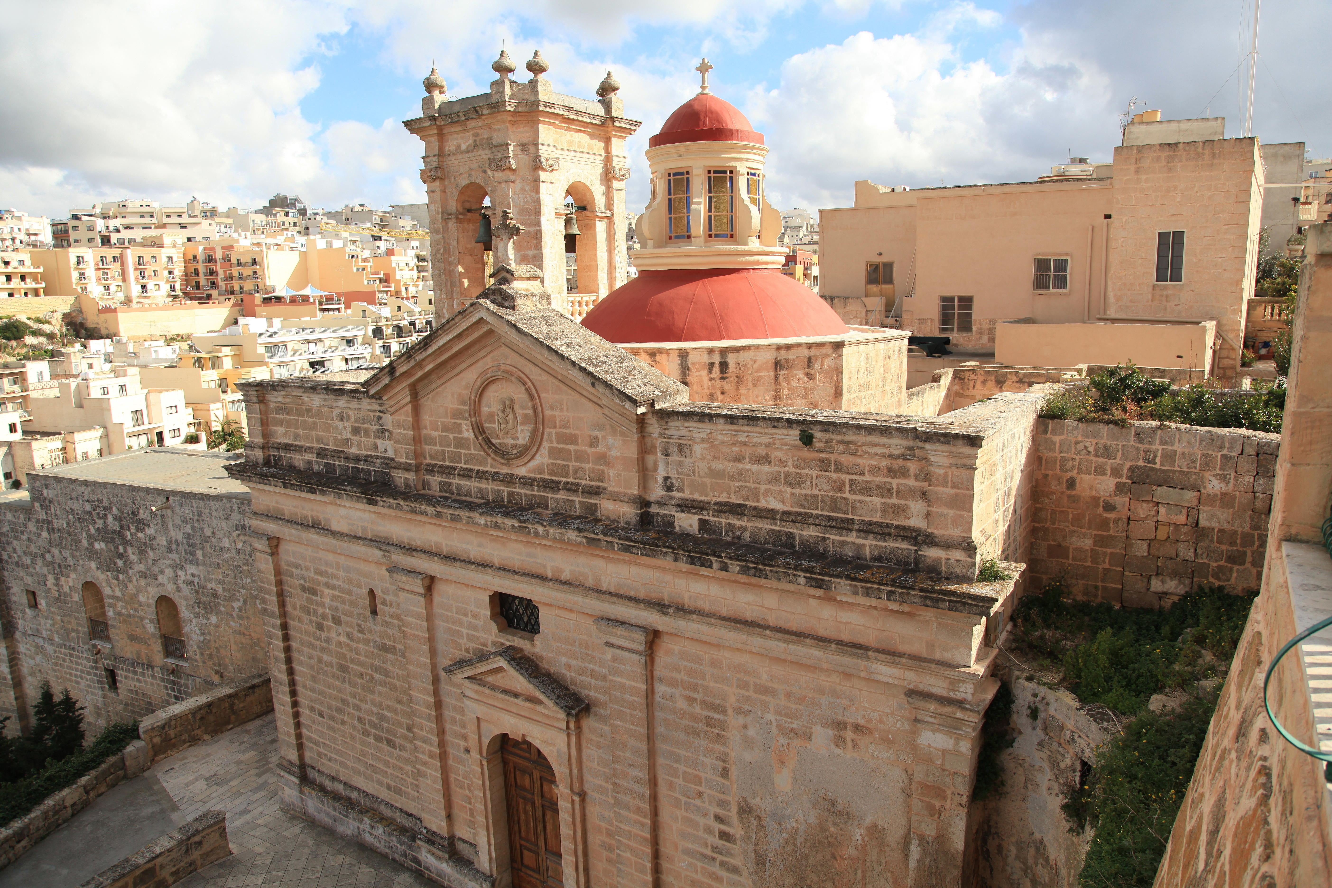 Sanctuary of Our Lady of Mellieħa at Misraħ il-Parroċċa in Mellieħa